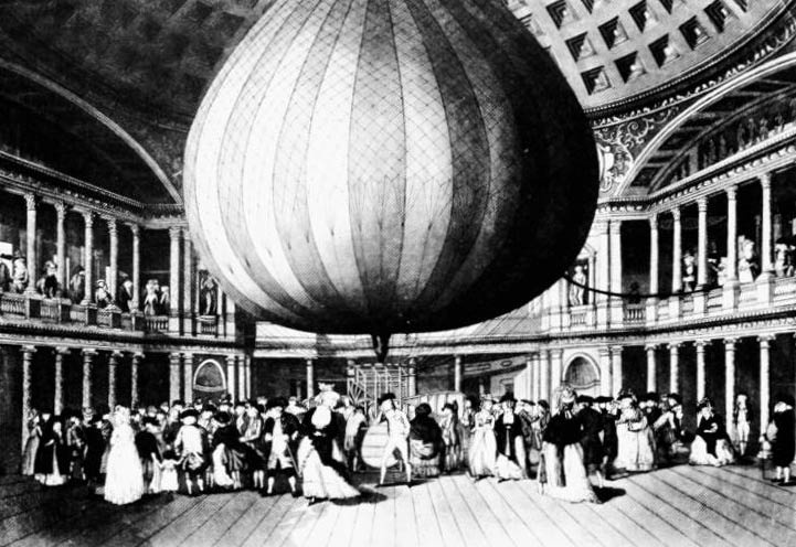 A Representation of Mr Lunardi's Balloon, as Exhibited in the Pantheon, 1784 ( description source). The exhibition took place after Lunardi's memorable first flight (15 September 1784)